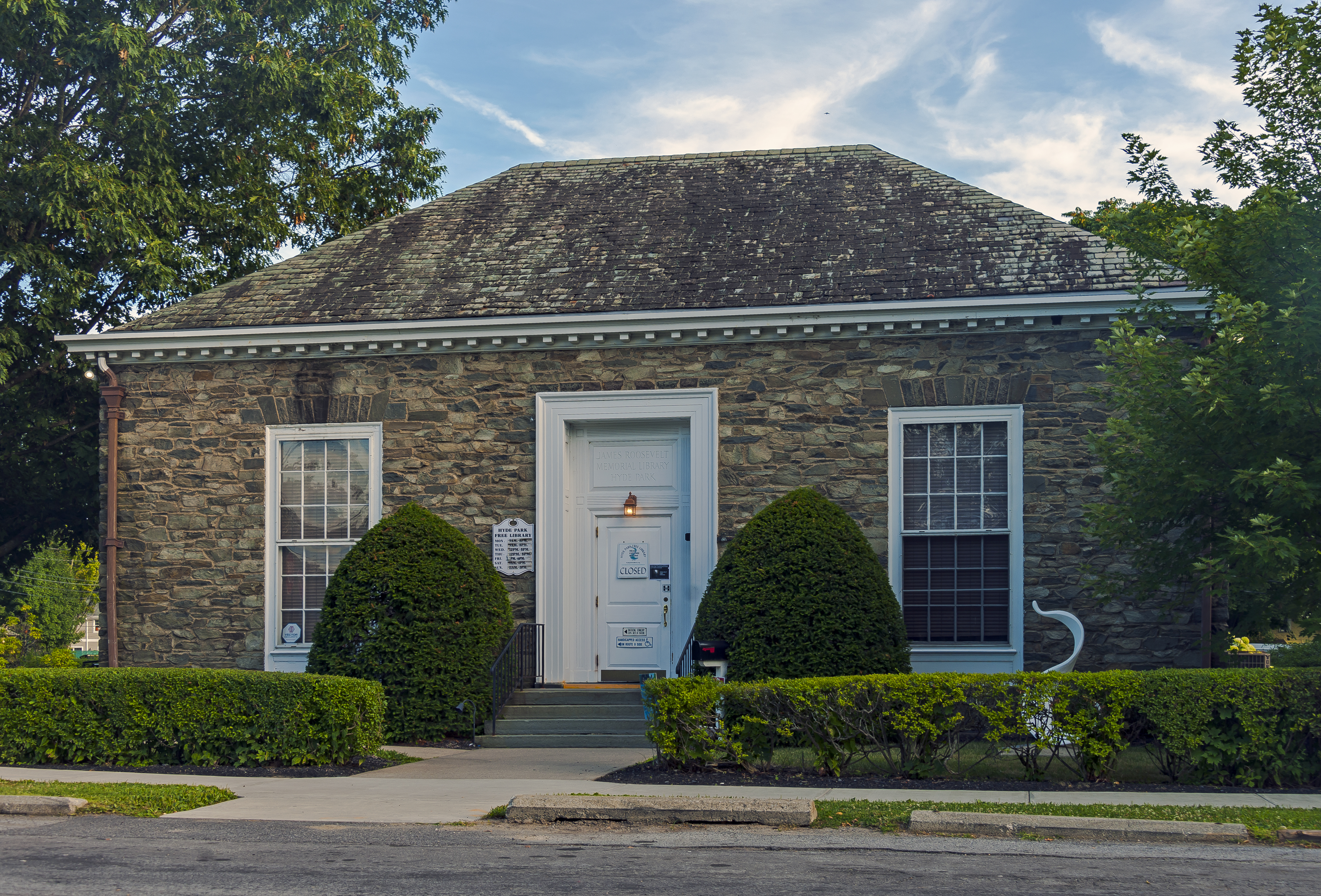 James Roosevelt Memorial Library, Hyde Park, NY, USA, built in 1927 with a donation from his wife and son, who insisted on the fieldstone as a material for construction, in recognition of the family's Dutch ancestry. It is a contributing property to the Main Street–Albertson Street–Park Place Historic District